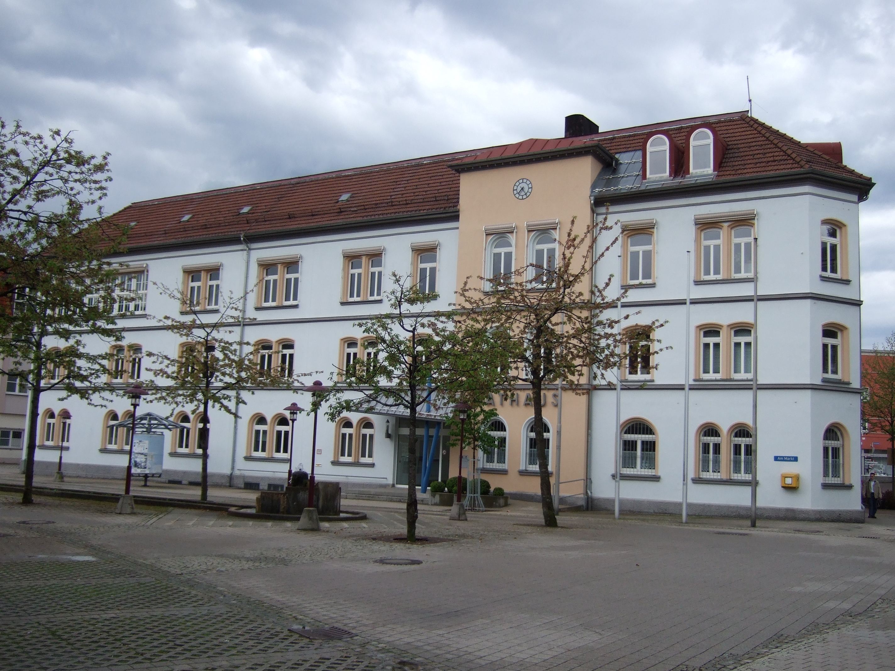 City Hall Tailfingen